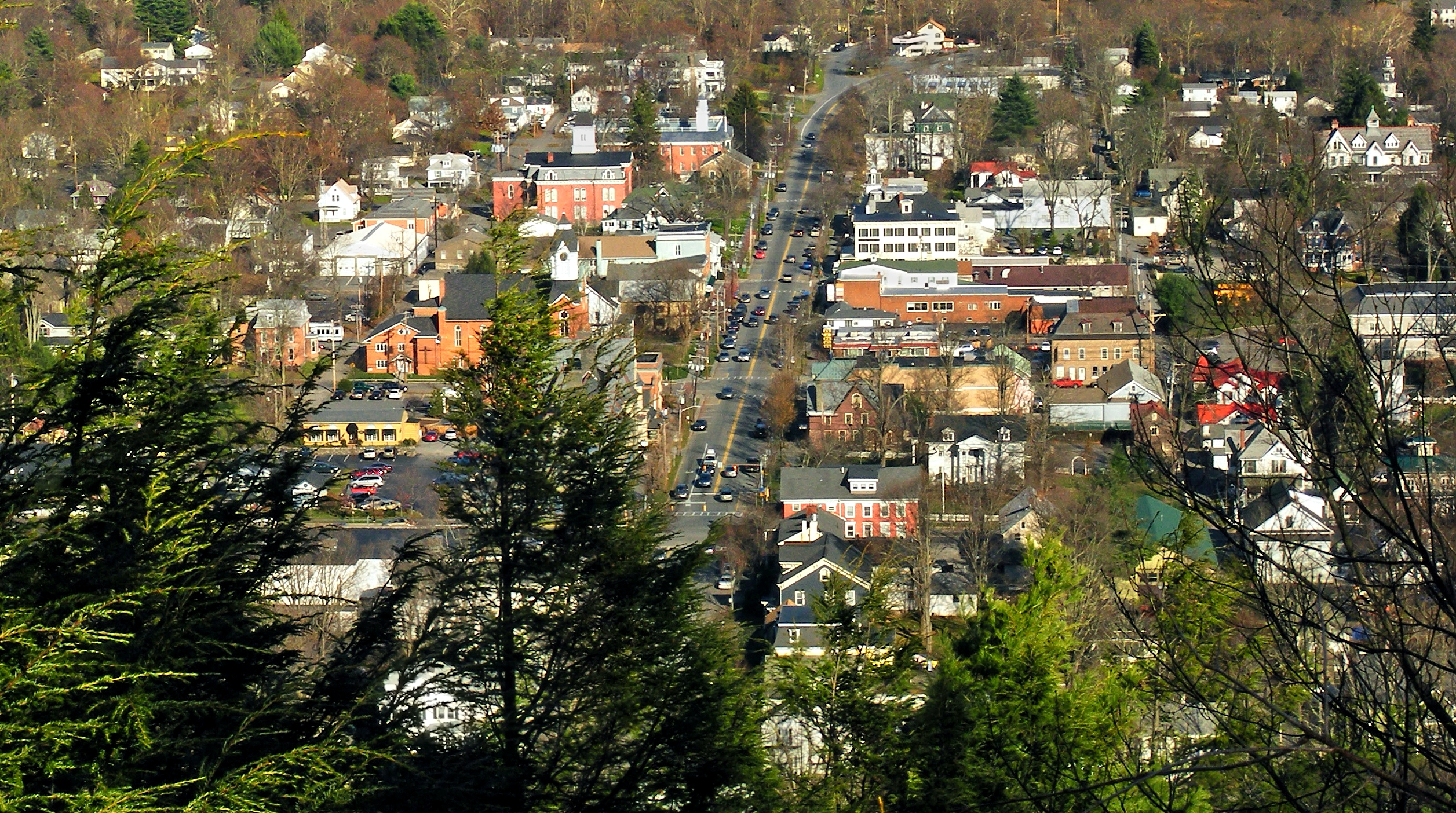 Milford, Pike County. The Cliff Trail, part of the Delaware Water Gap National Recreation Area, provides many outstanding views of the Delaware River Valley. The vista here is from a prominent escarpment known locally as the Knob. Running vertically through town is US Route 6; along the ridge (but mostly hidden from view) is Interstate 84.